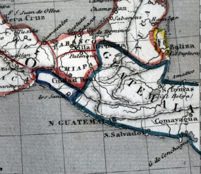 This detail shows an unmarked area that is neither part of Chiapas, Mexico nor part of Guatemala.